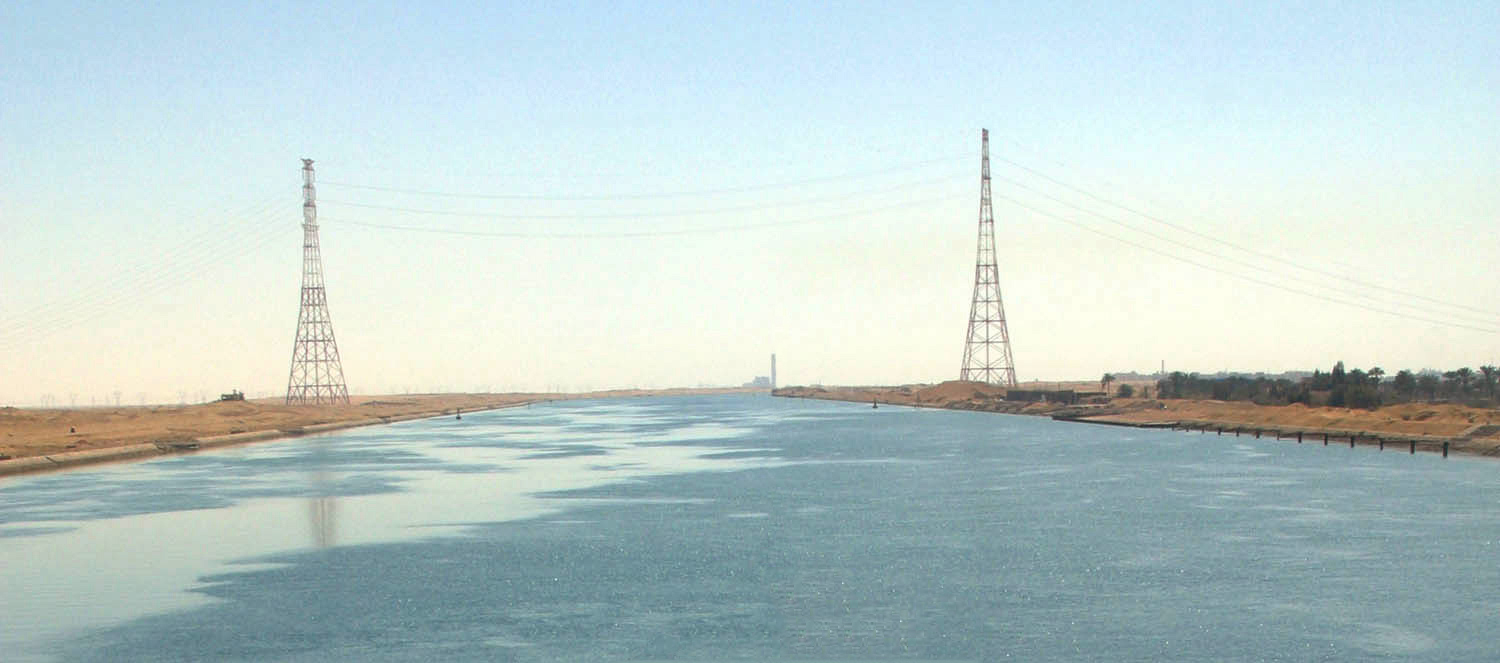 The Suez Canal overhead line crossing, an important electrical power line built across the Suez Canal in 1998, located north of the city of Suez, Egypt.